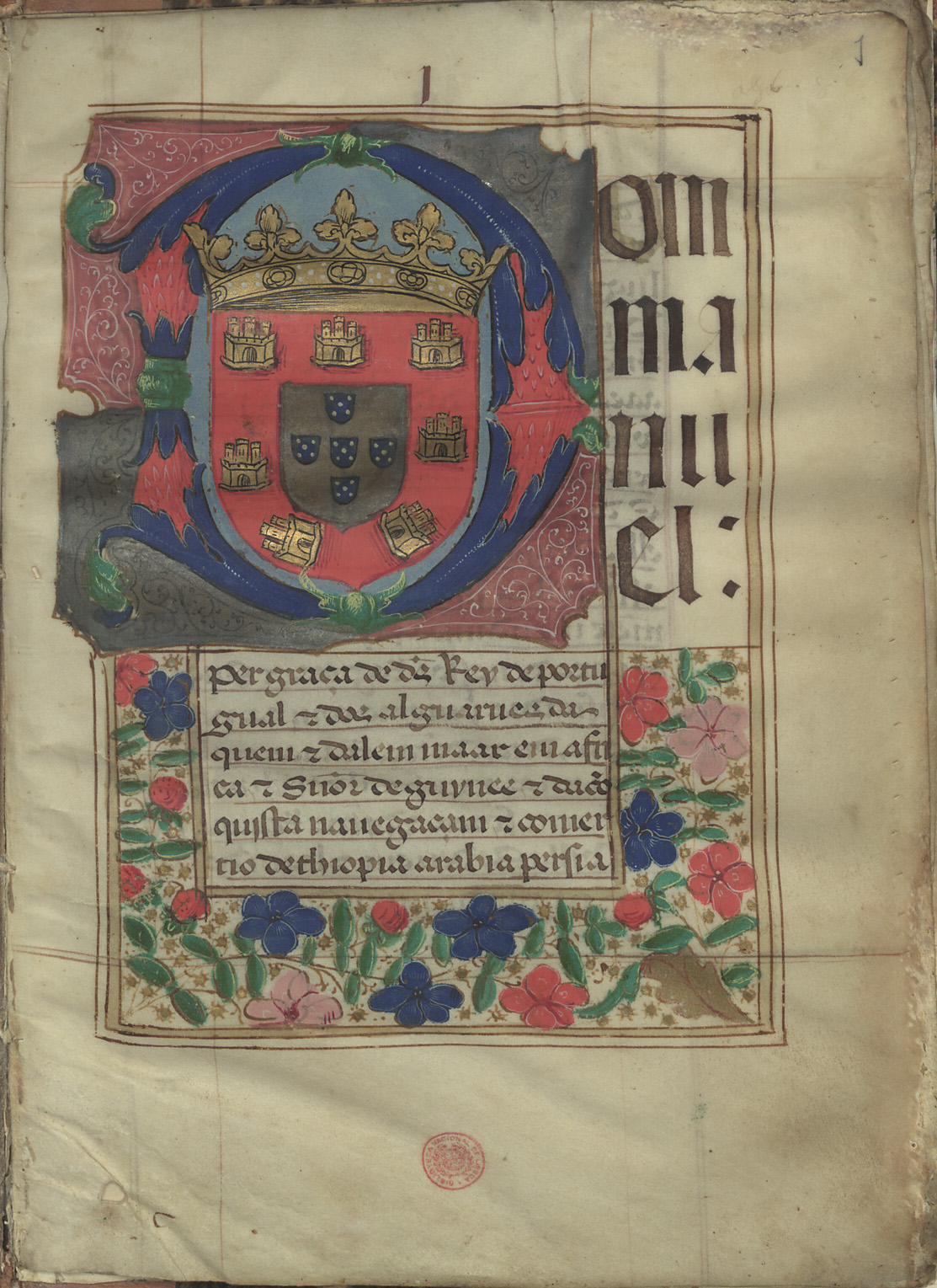 Town Charter of Alhos Vedros, dated 15 December 1514.